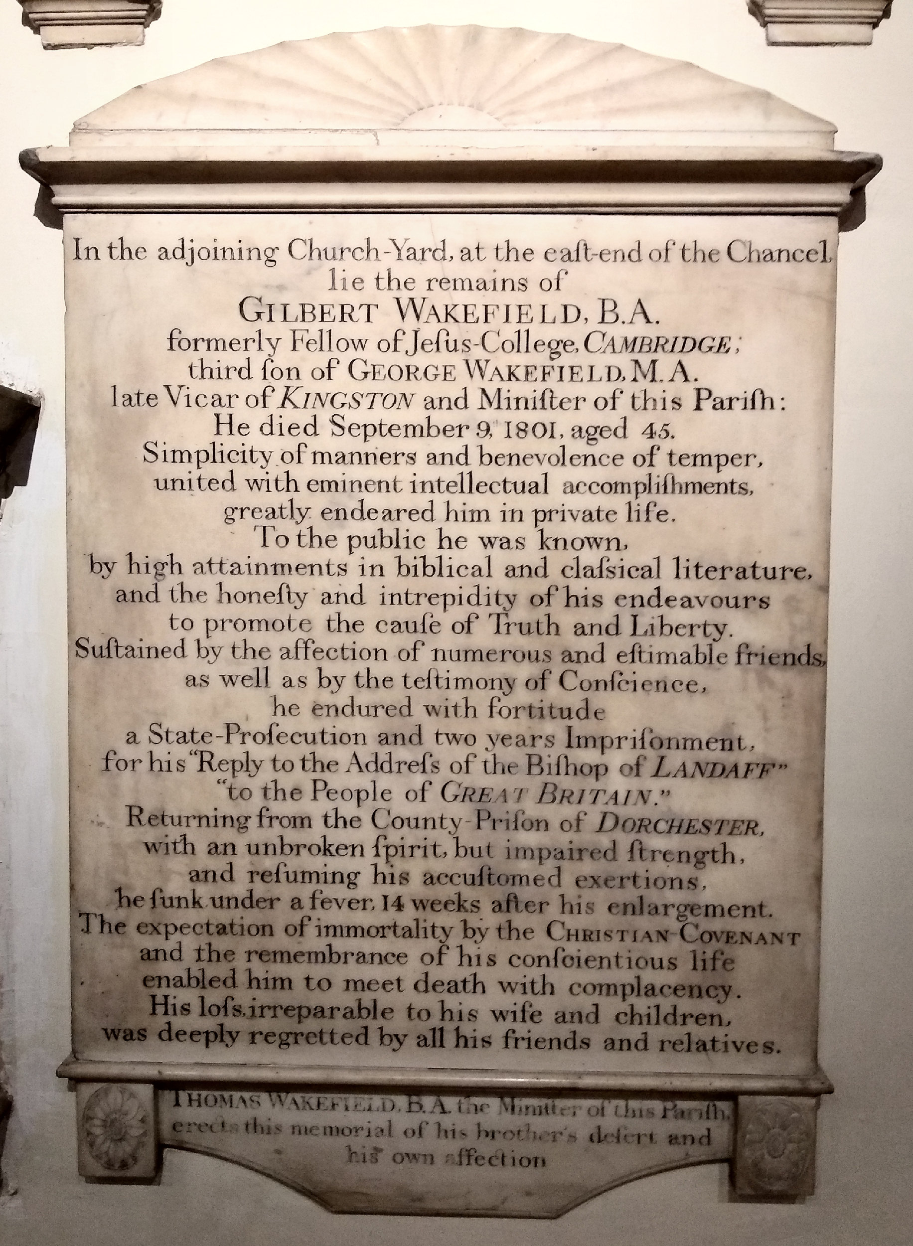 St Mary Magdalene's, Richmond, Gilbert Wakefield (d 1801) memorial